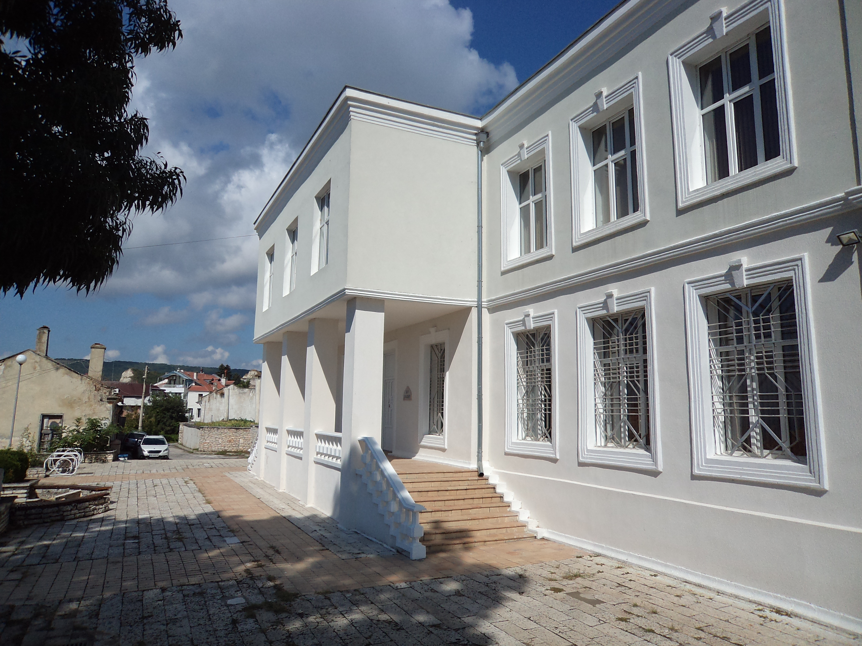 Art galerie in Balcik